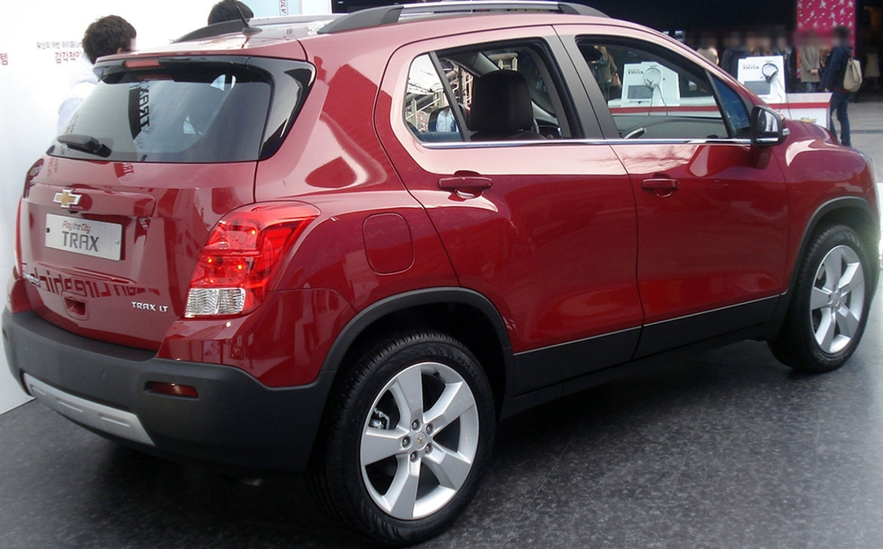 Chevrolet Trax